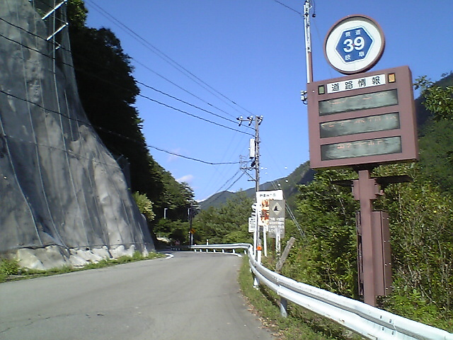 Nagano Prefectural Road and Gifu Prefectural Road Route 39